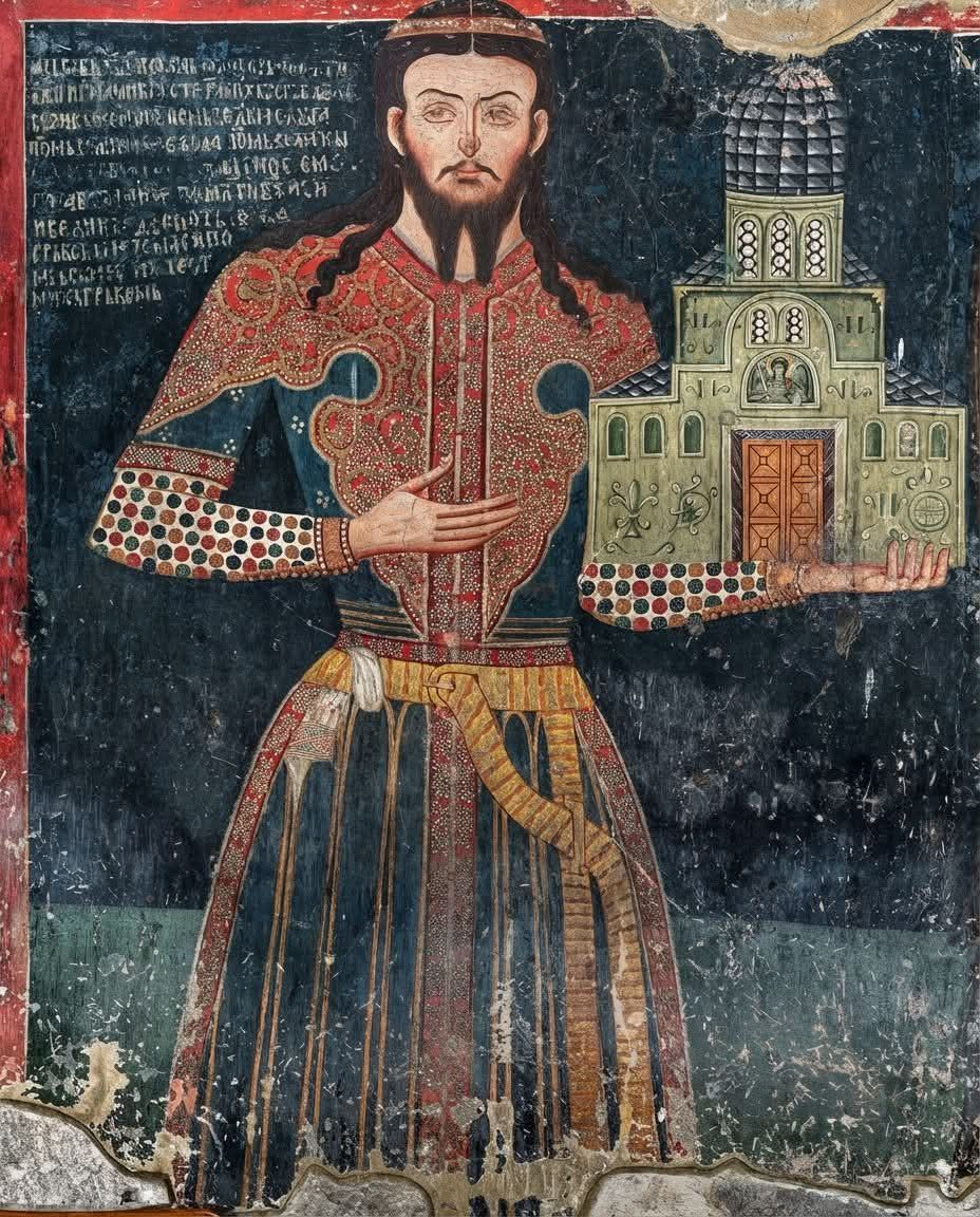 Serbian despot Jovan Oliver, middle of XIV century, monastery Lesnovo, Republic of Macedonia